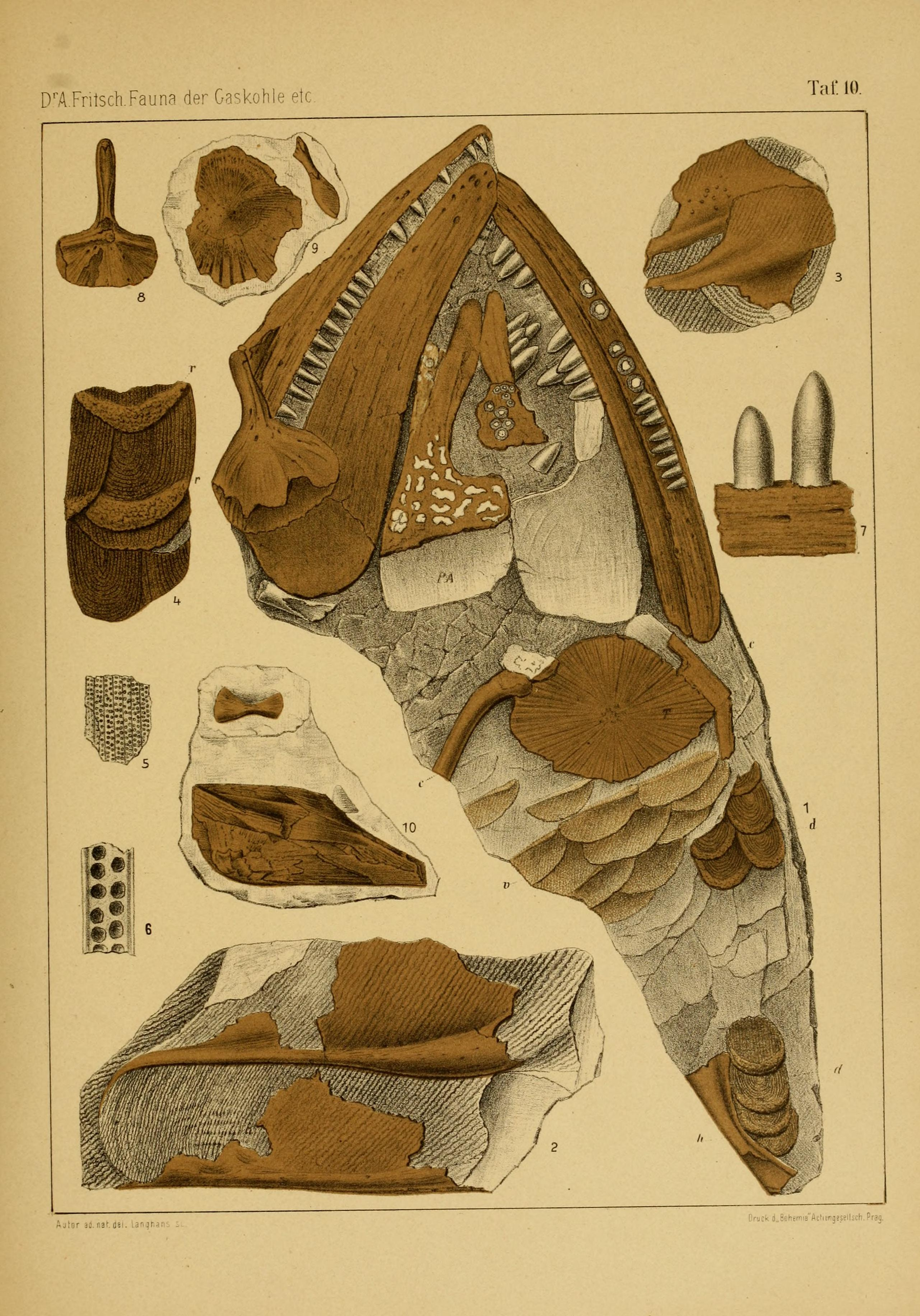 The skull of Boii crassidens a.k.a. "Sparodus" crassidens (Figures 1-8) seen from below along with fragments from "Branchiosaurus?" robustus (An indeterminate temnospondyl; Figures 9-10). Original text (translated): "Plate 10 Sparodus crassidens, Frič. Text page 86 (Compare Plate 9 and Text figure Number 40.) From the bituminous coal of Kounová. Fig. 1. Impression of the underside of the skull illustrated in Plate 9, Fig. 1. Between the jaws are the two edentulous Pterygoids P. (instead of Pt.), then a fragment of the toothed vomer plate and some teeth of the palatine bone. T. Throat Breastplate. c. coracoids. v. Scales of the ventral side, d. Scales of the dorsal side. h. Humerus (?). (Magnified 6 times. Number d. Orig 83.) Fig. 2. Two scales of the ventral side, seen from the inside. (Magnified 12 times, Number d. Orig. 83.) Fig. 3. Two other scale fragments of the ventral side, from the inside. The uncolored areas show the sculpturing of the outside in a negative impression. (Magnified 12 times, Number d. Orig. 83.) Fig. 4. Group of scales from the dorsal surface, r.r. Thickenings on the rear edge of the scales. (Magnified 12 times, Number d. Orig. 83.) Fig. 5. Sculpturing of a dorsal scale. (Magnified 20 times.) Fig. 6. Sculpturing of a dorsal scale. (Magnified about 60 times.) Fig. 7. Jaw fragment with 2 teeth from the upper jaw. Fig. 8. Parasphenoid, whose affiliation is not proven. Kounová, (Magnified 3 times, Number d. Orig. 125.) Branchiosaurus? robustus, Frič. Text pag. 84. Fig. 9. Throat breast plate. Kounová. (Magnified 2 times, Number d. Orig. 89.) Fig. 10. Lower jaw fragment, with the Articular and Angular. Kounová. (Magnified 2 times, Number d. Orig. 89.)"